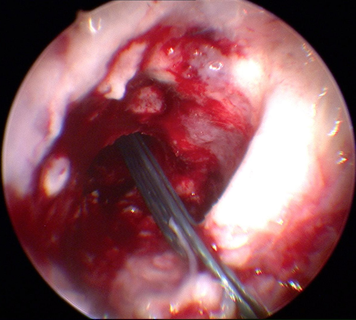 Arthroscopic reconstruction of the anterior cruciate ligament (ACL) of the right knee. The tendon of the semitendinosus muscle was prelevated and used as an autograft. The tendon was folded to form three bundles. A string (shown here anterior to the posterior cruciate ligament) is used to pull the autograft through a channel that is drilled through the tibia and femur. The string pulls the autograft towards the upper tunnel in the top of the intercondylar area.